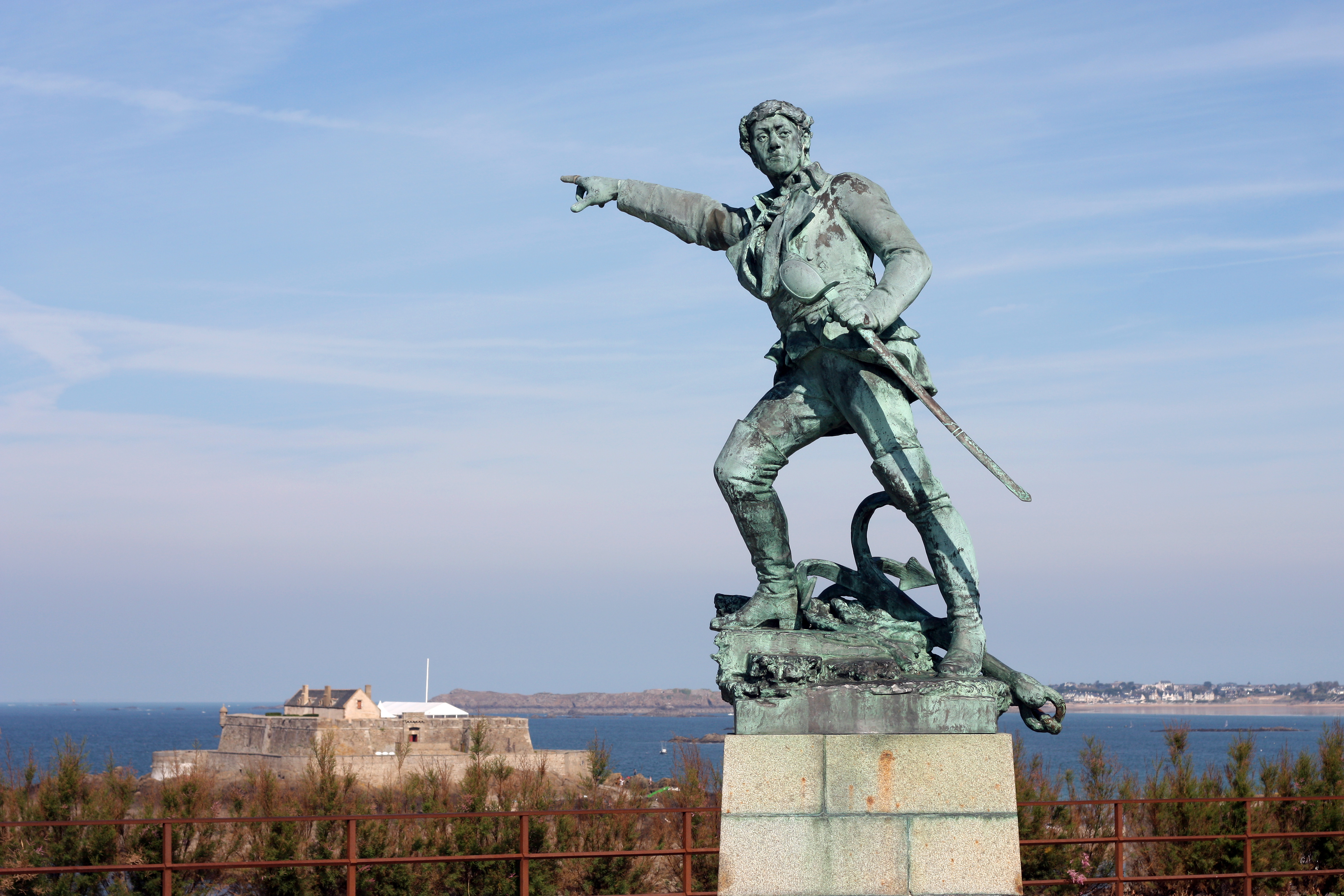 The Monument to Surcouf, jardin du Cavalier, Saint-Malo. The Fort National can be seen in the background. Statue by Alfred Caravanniez, inaugurated july 6th 1903.